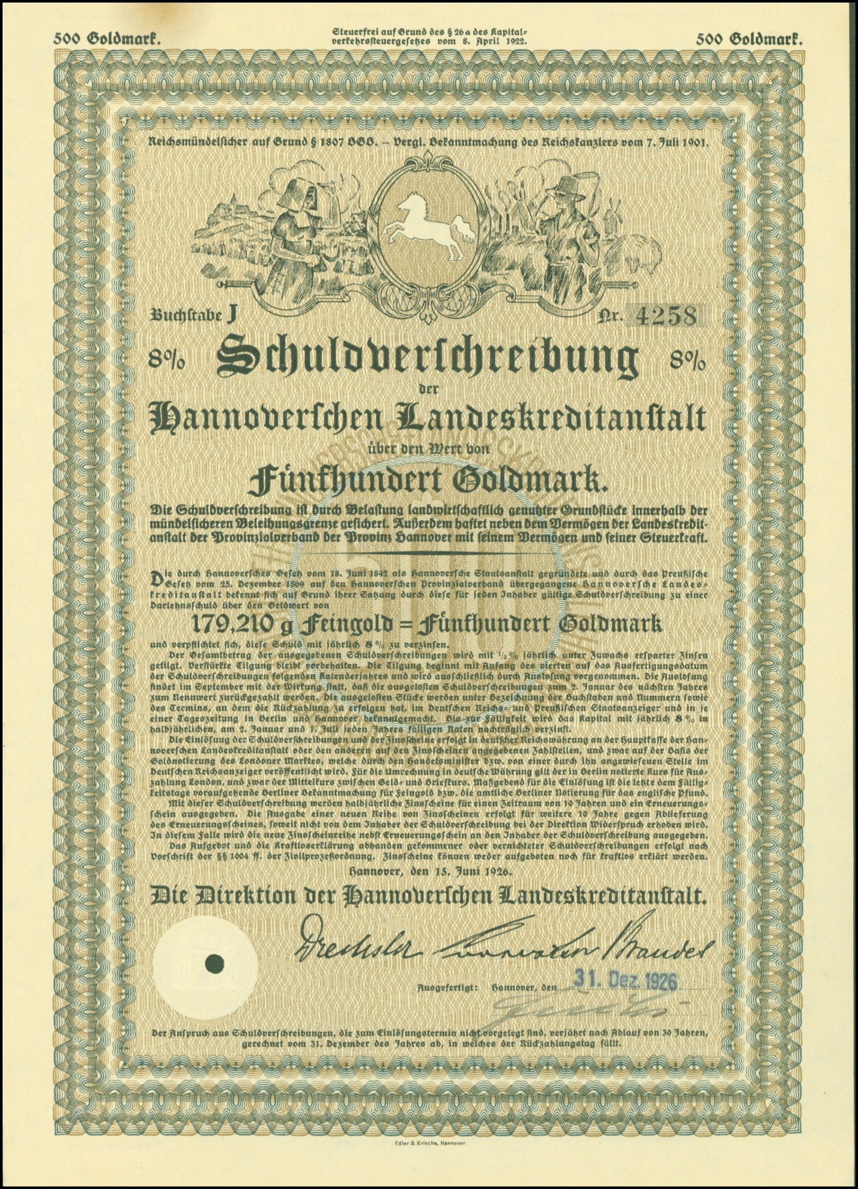 Bond of the Hannoversche Landeskreditanstalt, issued 15. June 1926